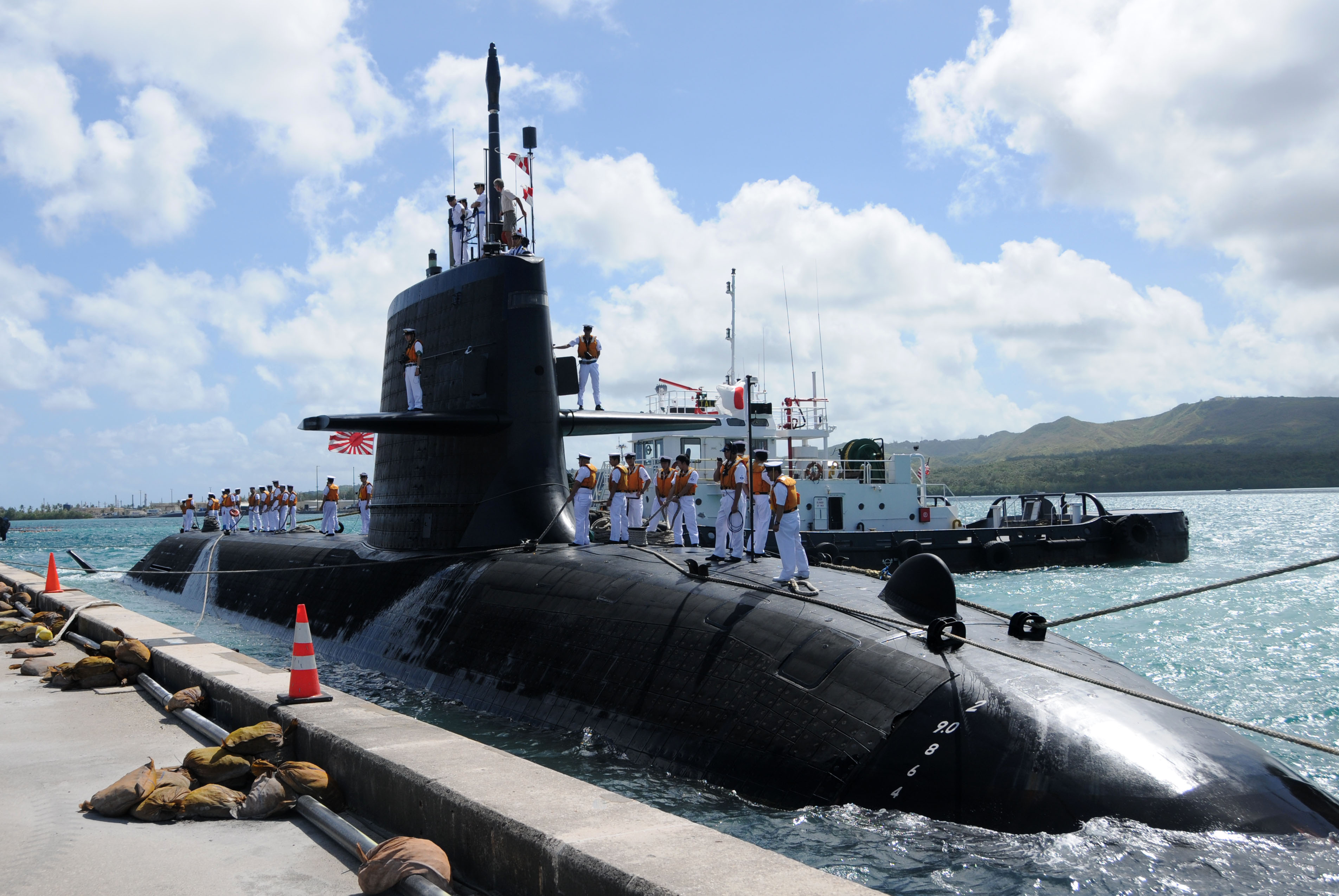 APRA HARBOR, Guam (April 12, 2013) - Japan Maritime Self-Defense Force (JMSDF) submarine Hakuryu (SS-503) visits Guam for a scheduled port visit. Hakuryu will conduct various training evolutions and liberty while in port. (U.S. Navy photo by Mass Communication Specialist 1st Class Jeffrey Jay Price) Nikon D300S ↑ 平成24年度第2回米国派遣訓練（潜水艦）について - 海上幕僚監部、2013年1月11日